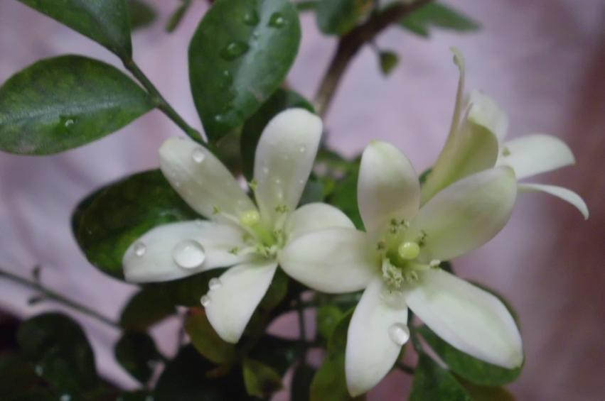 Murraya paniculata at Cairo-Egypt